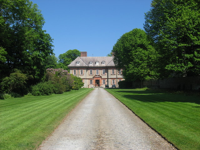 Beaulieu House, Co. Louth. Built by the Tichbourne family on the site of an earlier Plunkett castle. Formerly believed to date to the 1660s, recent research now dates its construction to the period 1710-1720 [1]